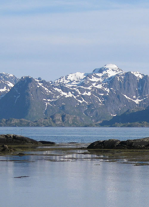 Gulstad,Melbu,Nordland,Norway